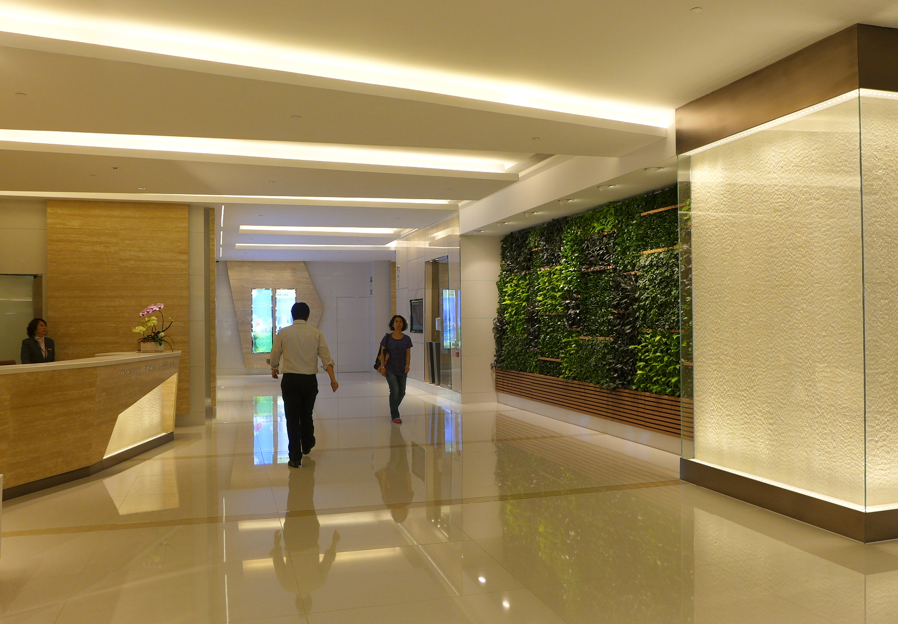 Grand Central Plaza Office Lobby